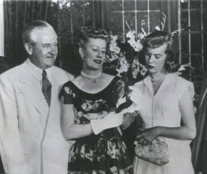 Actress Irene Dunne with her husband, Dr. Griffin, and her daughter at an award ceremony in 1949